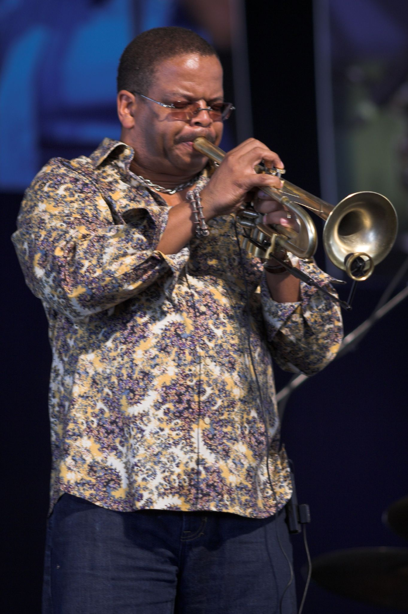 Terence Blanchard at the 2007 New Orleans Jazz & Heritage Festival